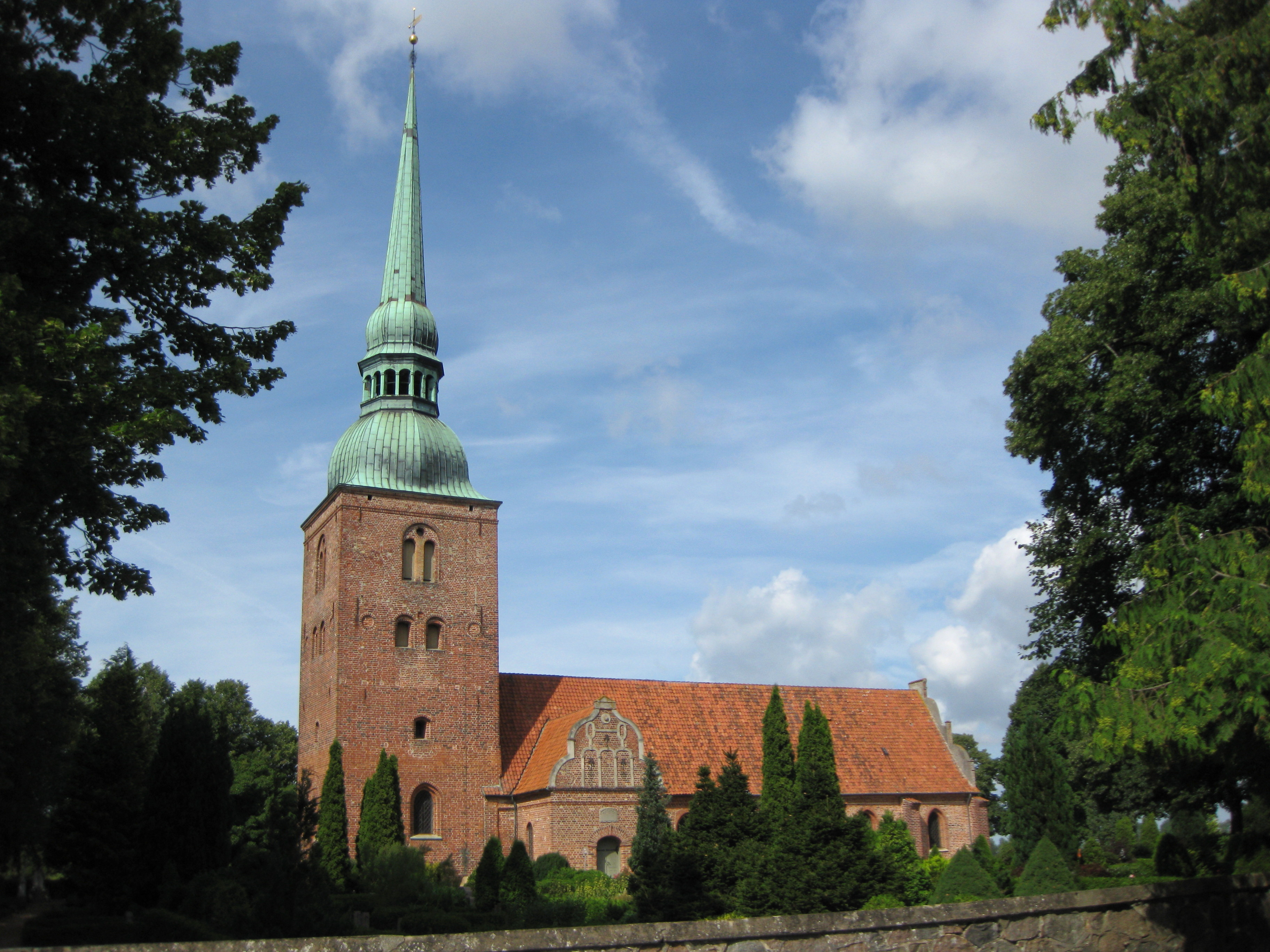 The church "Radsted Kirke" located on the island Lolland in east Denmark.